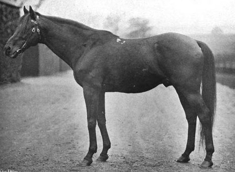 Donovan in retirement in 1903.